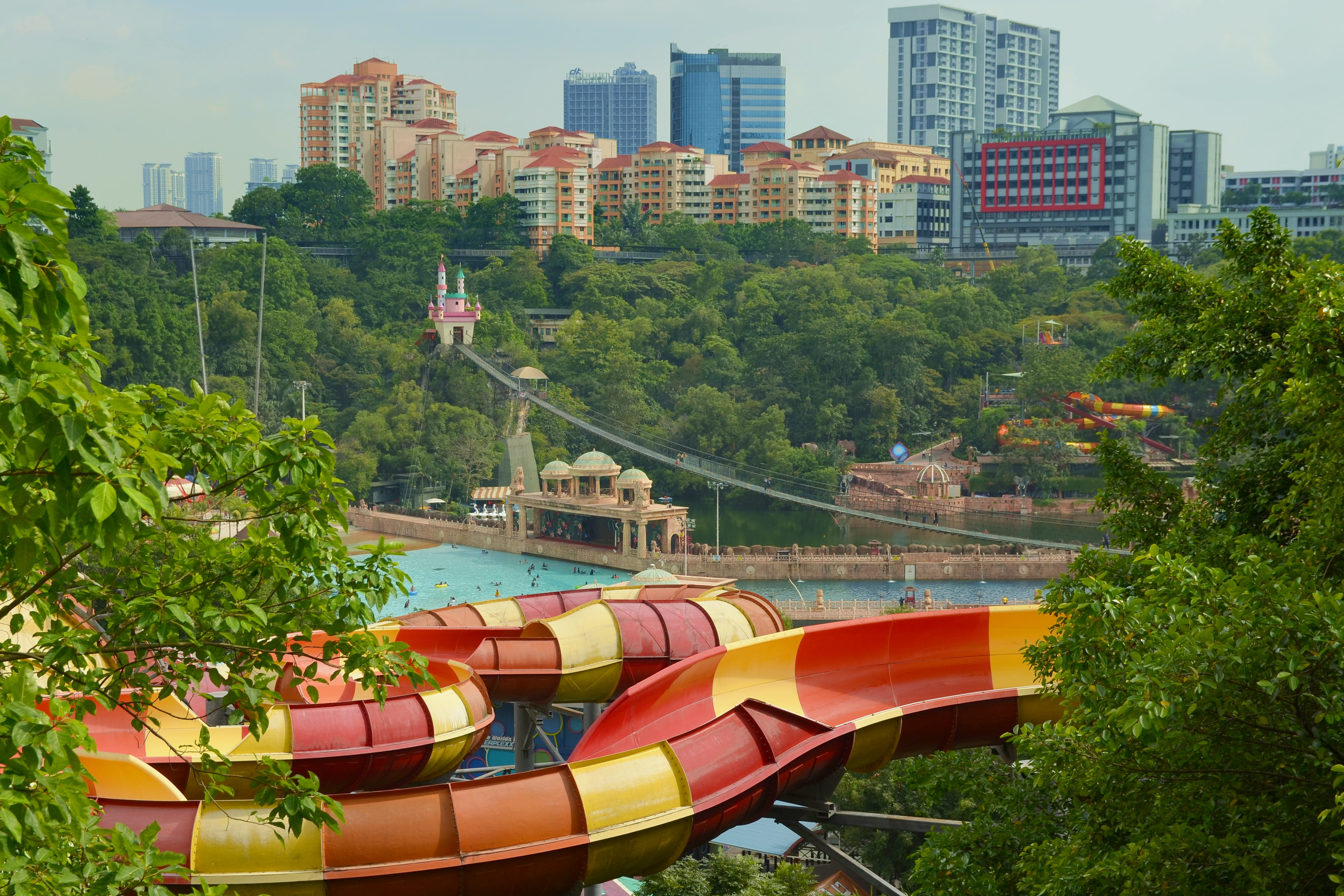 Sunway Lagoon viewed from Sunway Pyramid showing its low elevation compared to surrounding buildings.